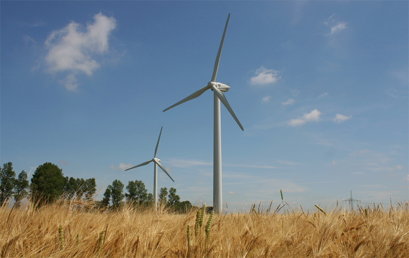 Repower MD 70 windmill